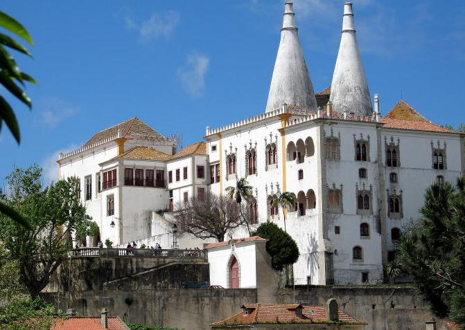 the summer residence of the kings of Portugal Palácio Nacional de Sintra (largely built in 15th/16th c.)